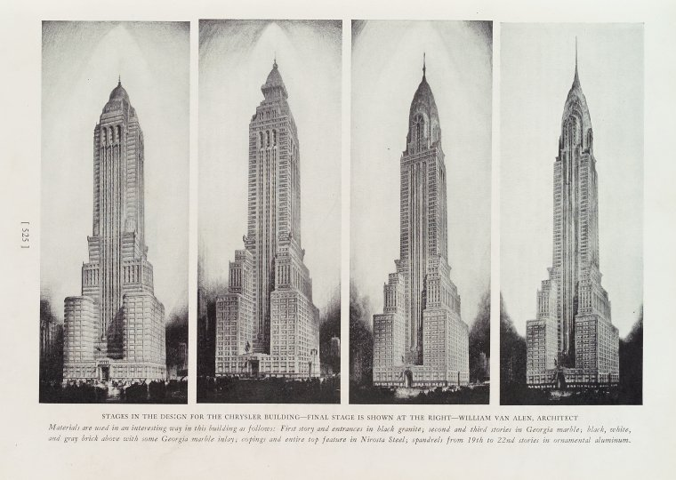 Stages in the design for the Chrysler building